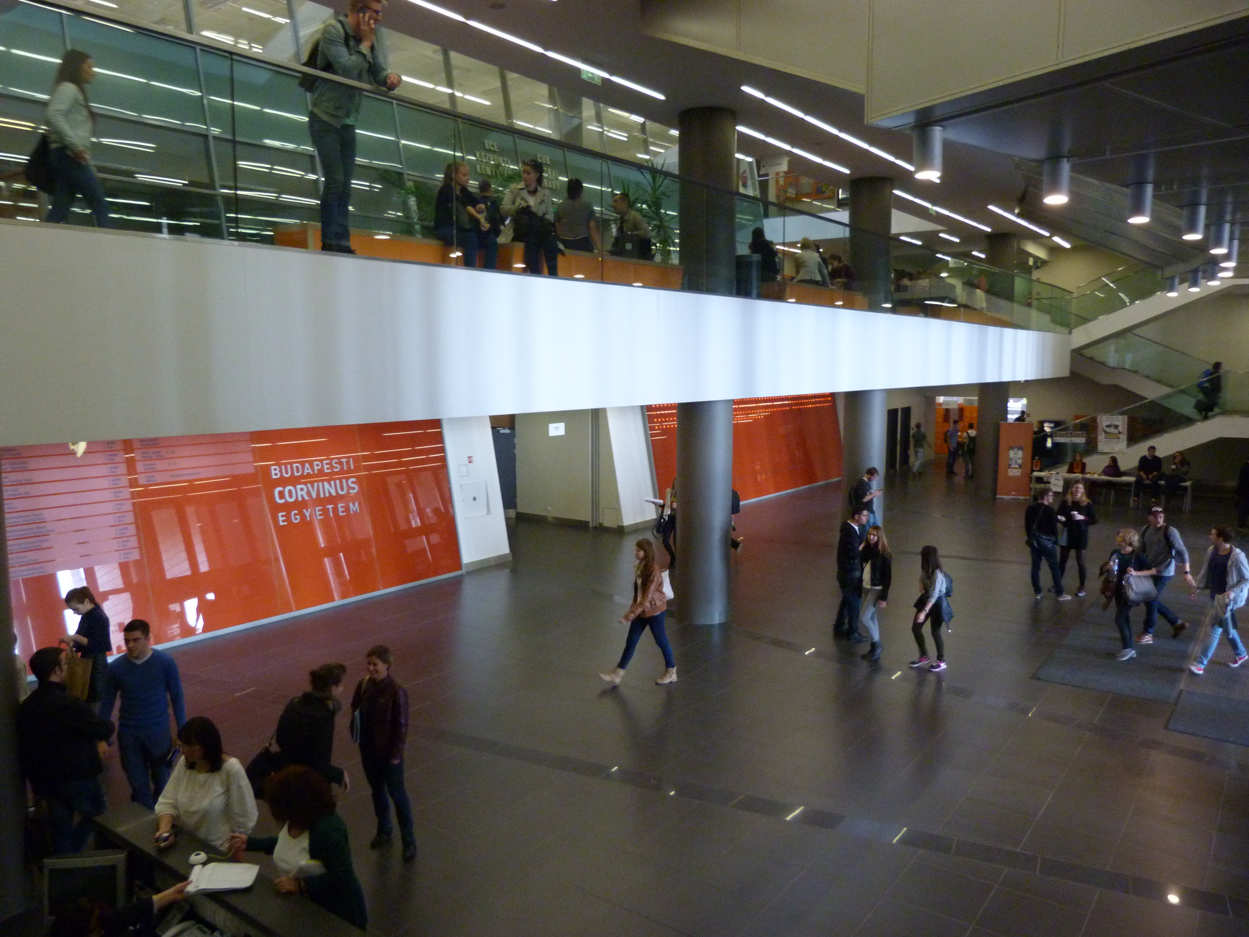 Clark S. Judge delivered his lecture titled "US Midterm elections: Is the Republican Party in its Death Throes ? " at Corvinus University, Budapest, Hungary. Judge had been the speech writer of Ronald Reagen. He works for the Wall Street Journal, New York Times, Financial Times etc. ©© Derzsi Elekes Andor, Budapest 2014, You are authorised to use these photos and vids under Creative Commons – even for commercial, for profit purposes. Photos must be attributed to Derzsi Elekes Andor. All of the photos and vids in the Metapolisz DVD line are under Creative Commons and can be used even for commercial – for profit – purposes. Recommended Citation Derzsi Elekes Andor: Metapolisz DVD line